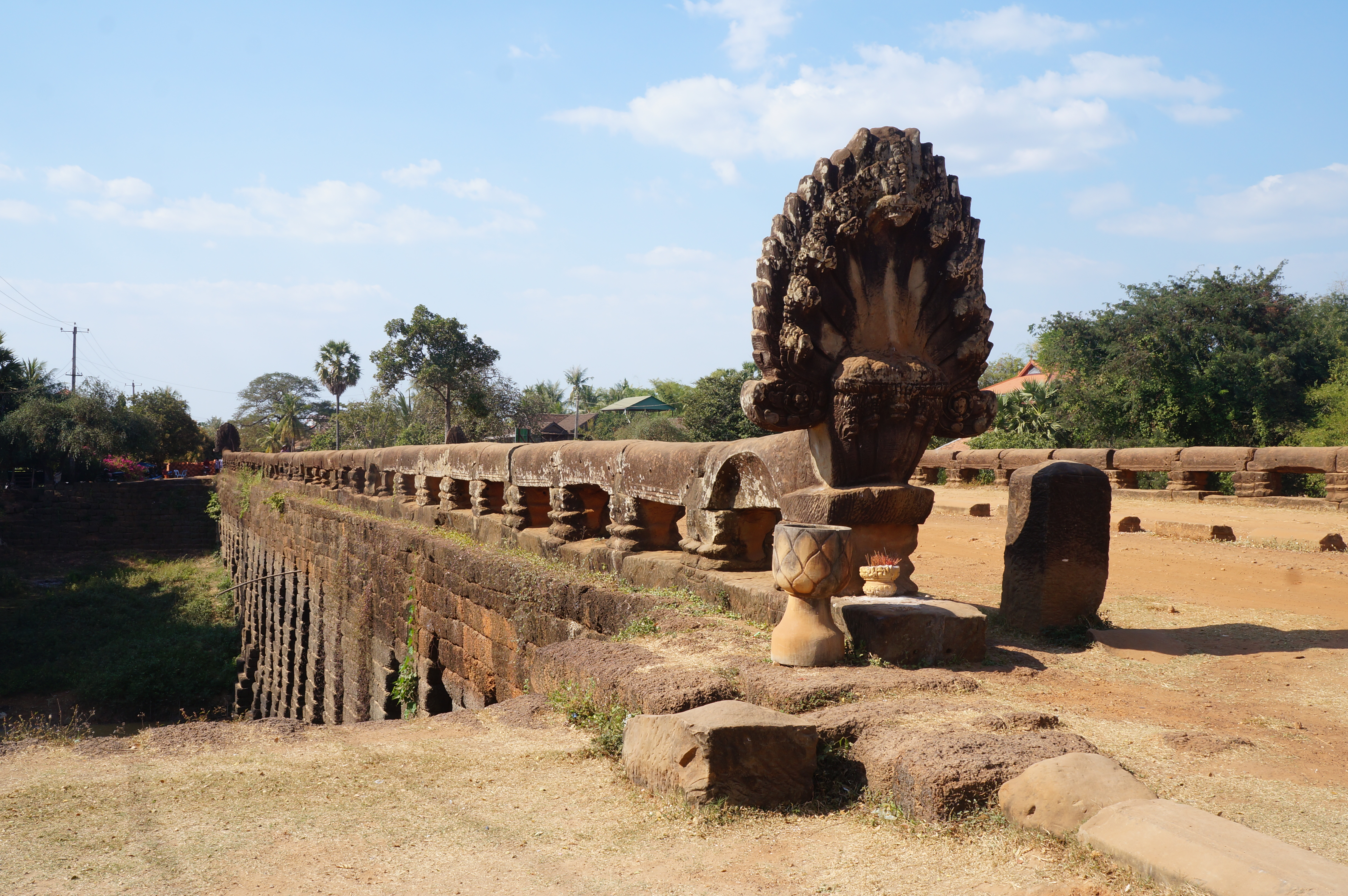 Kompong Kdei Bridge (12e) Spean Praptos Cambodia